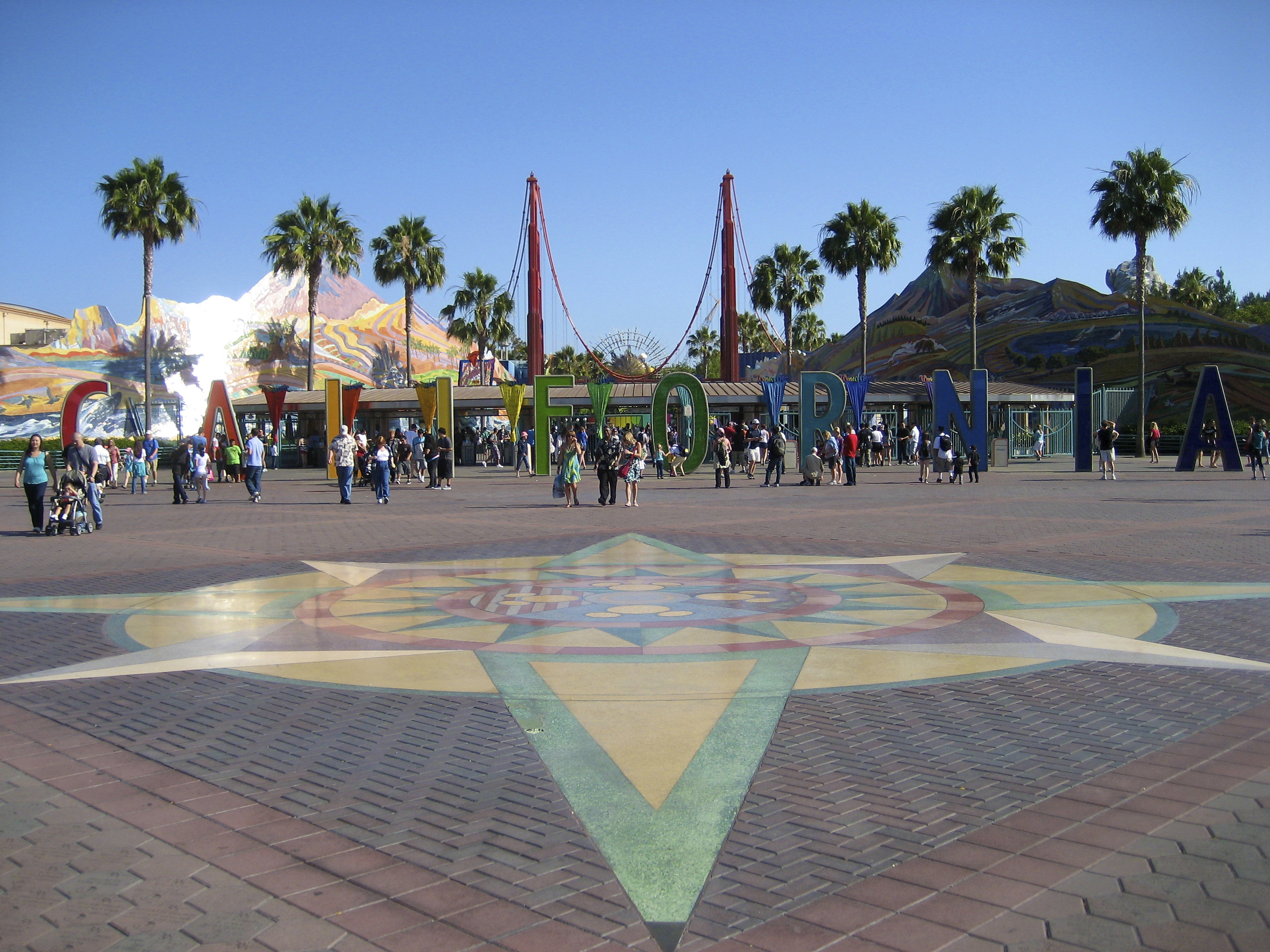 The main entrance to Disney's California Adventure Park decorated in World of Color livery as seen on July 4, 2010.